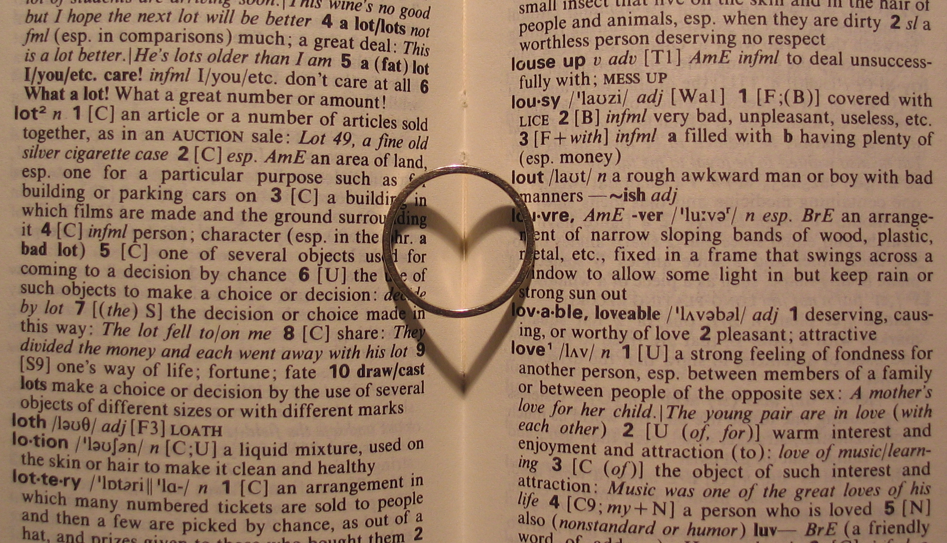 The photographer's wedding ring and its heart-shaped shadow in a dictionary.